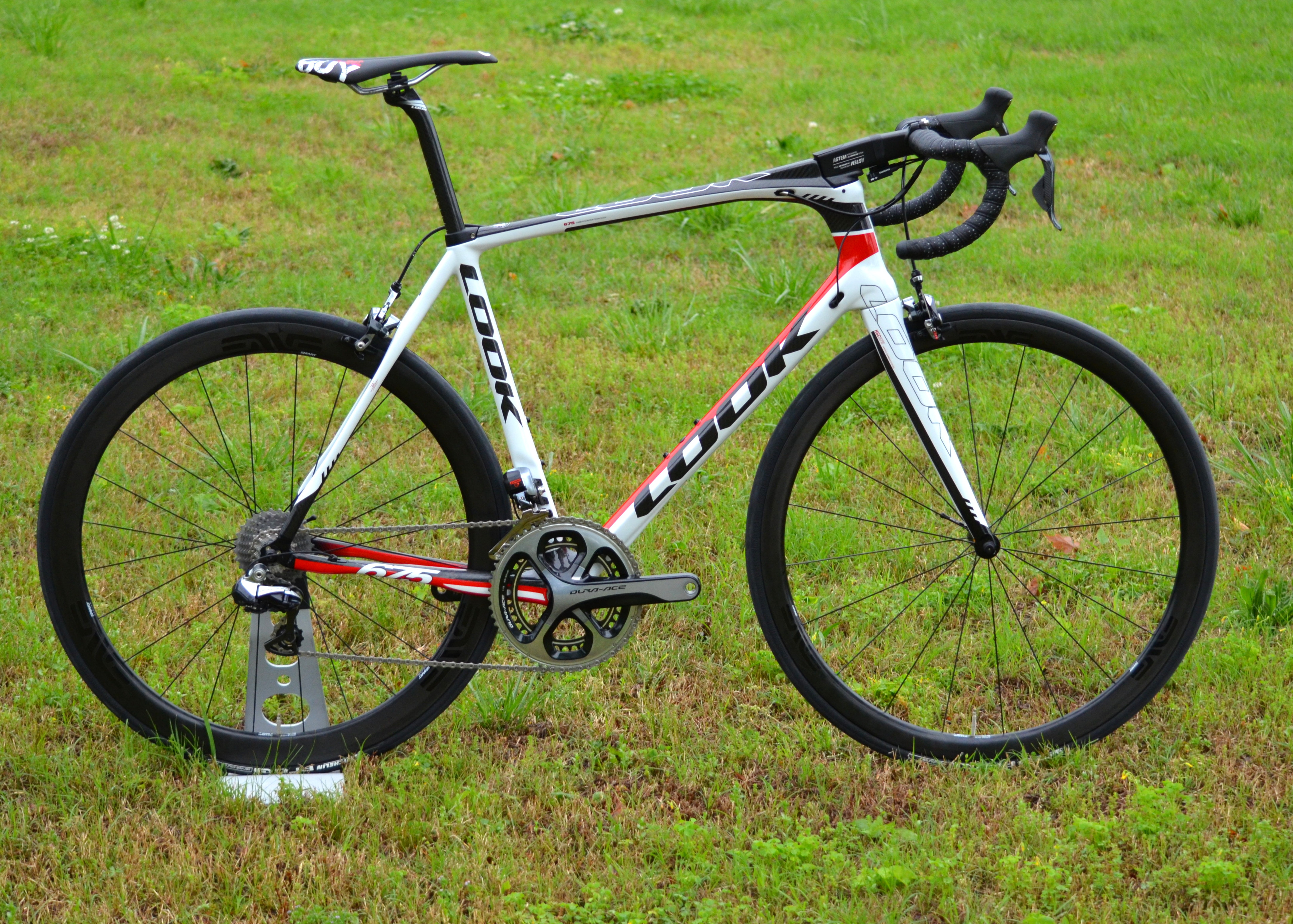 See more Look 675 on our site